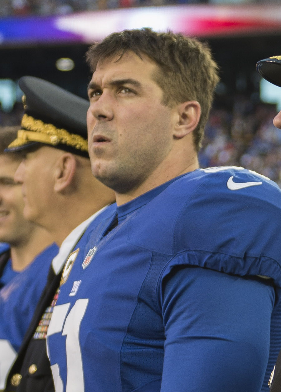 New York Giants long snapper, Zak DeOssie, during a game against the Pittsburgh Steelers on November 4, 2012.